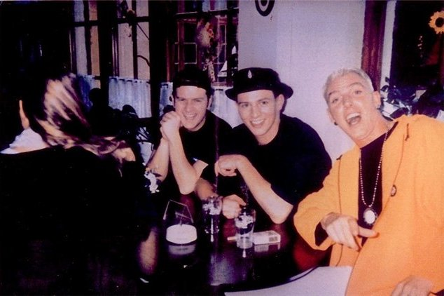 Scooter band during 1st Chapter (1993-1998). Rick J Jordan, Ferris Buller, HP Baxxter.